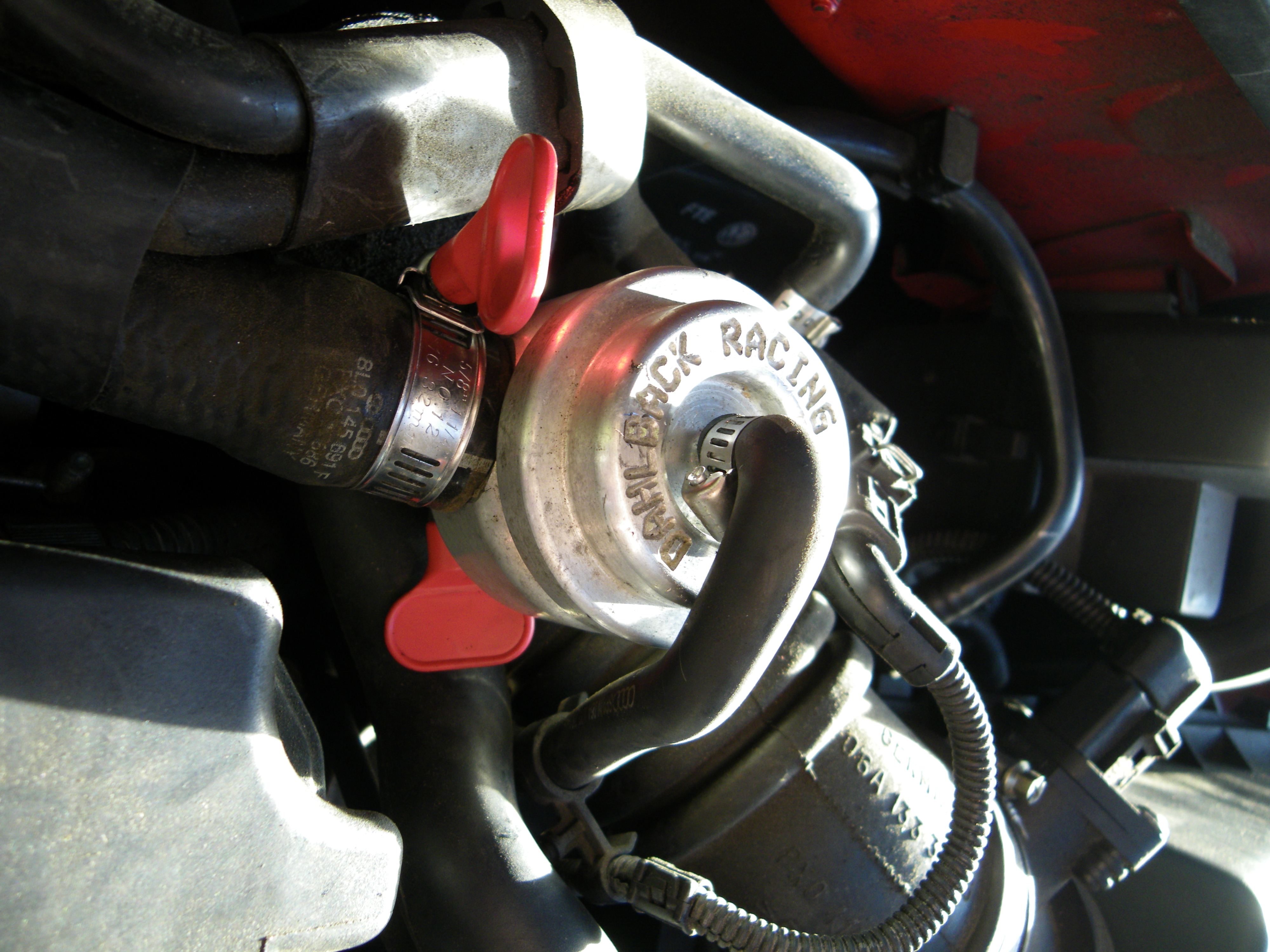 A diverter valve or bypass valve, used in turbocharged engines to protect the turbocharger against pressure surges on deceleration. The one depicted is one by Dahlbäck Racing and is used in motorsport.